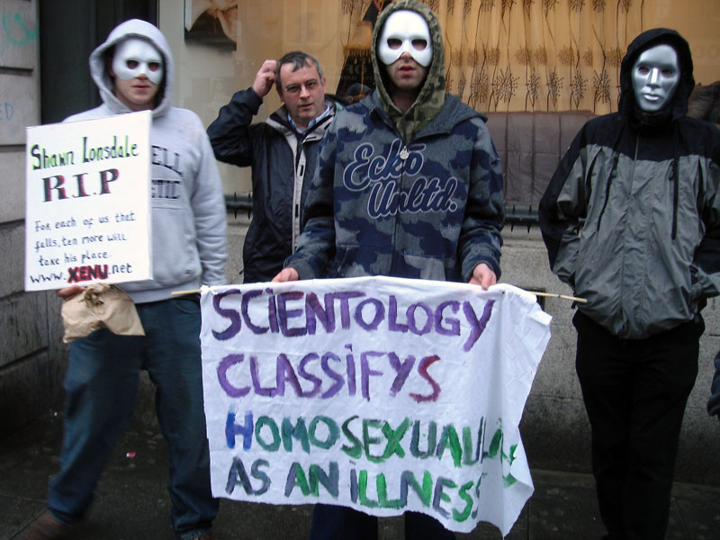 Protest sign addressing issues of Homosexuality and Scientology